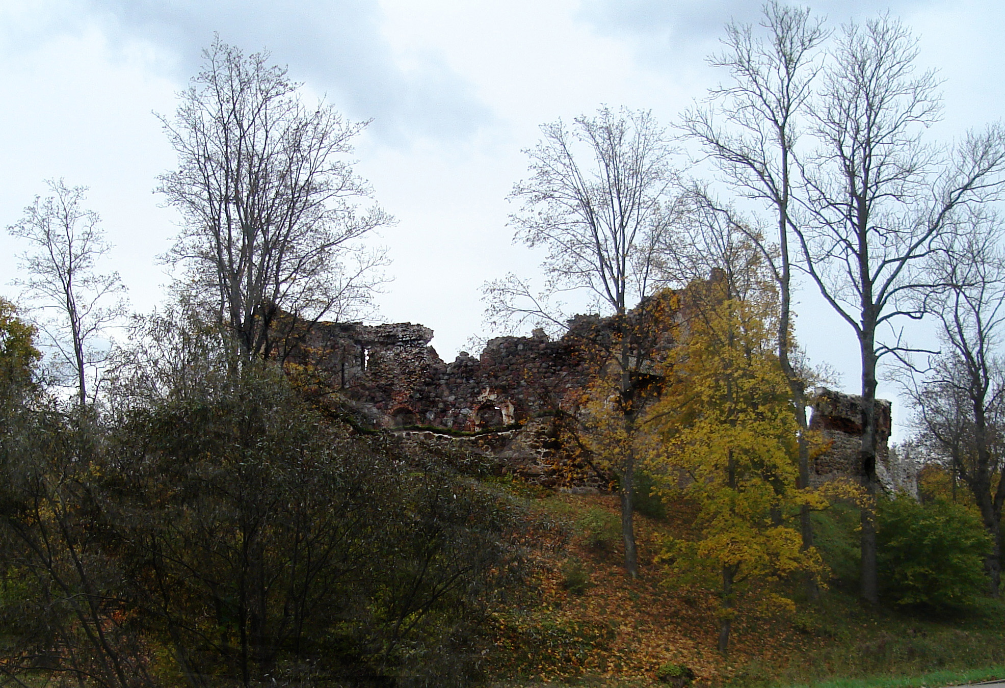 Picture of ruins of the castle in Dobele